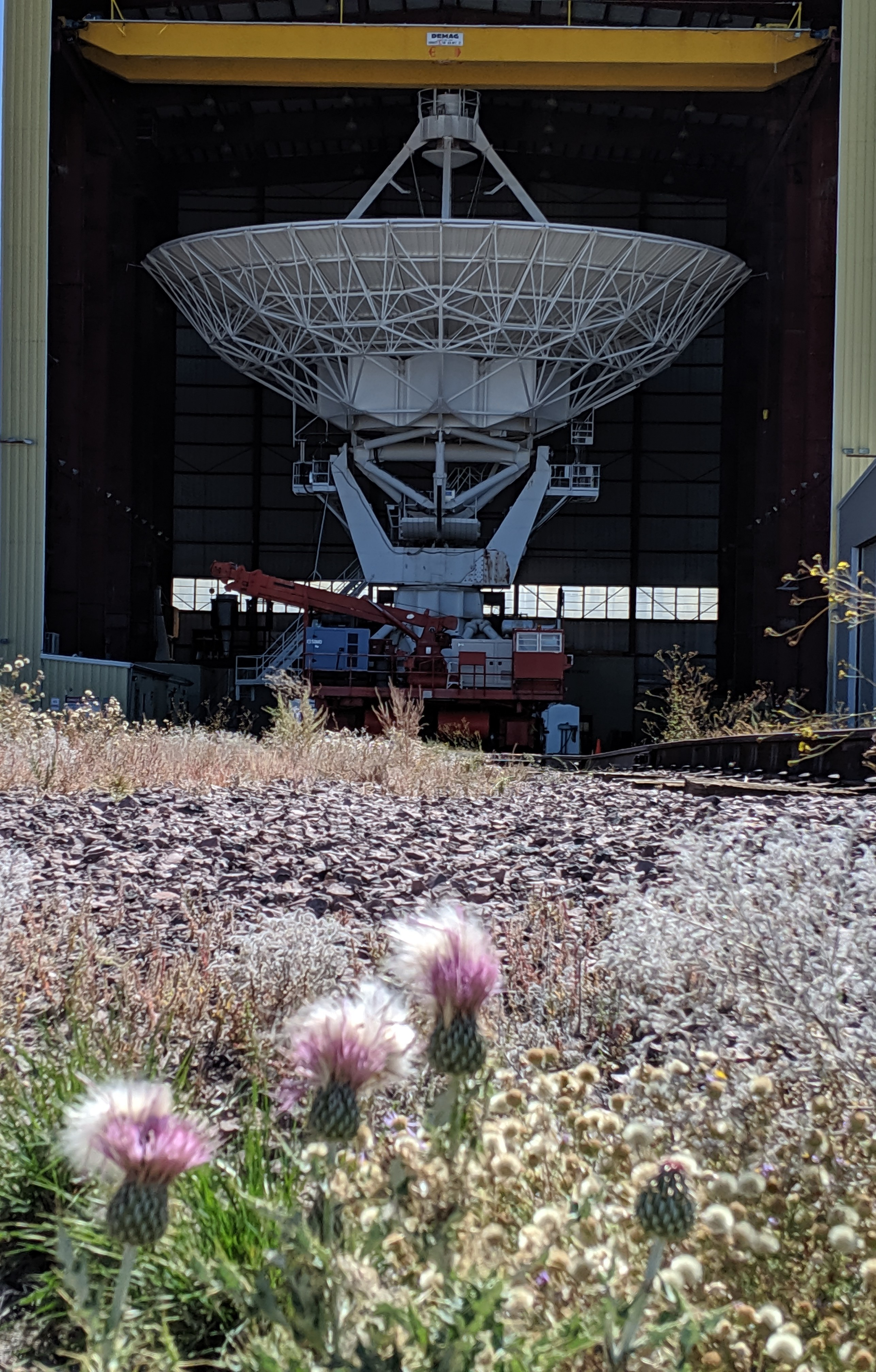 Thissel grow inbetween tracks